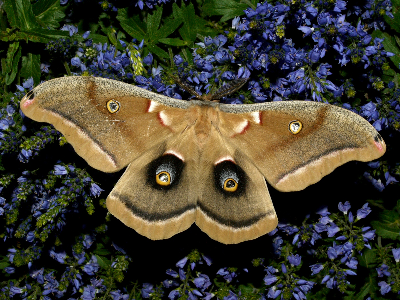 Antheraea polyphemus Polyphemus Moth moth